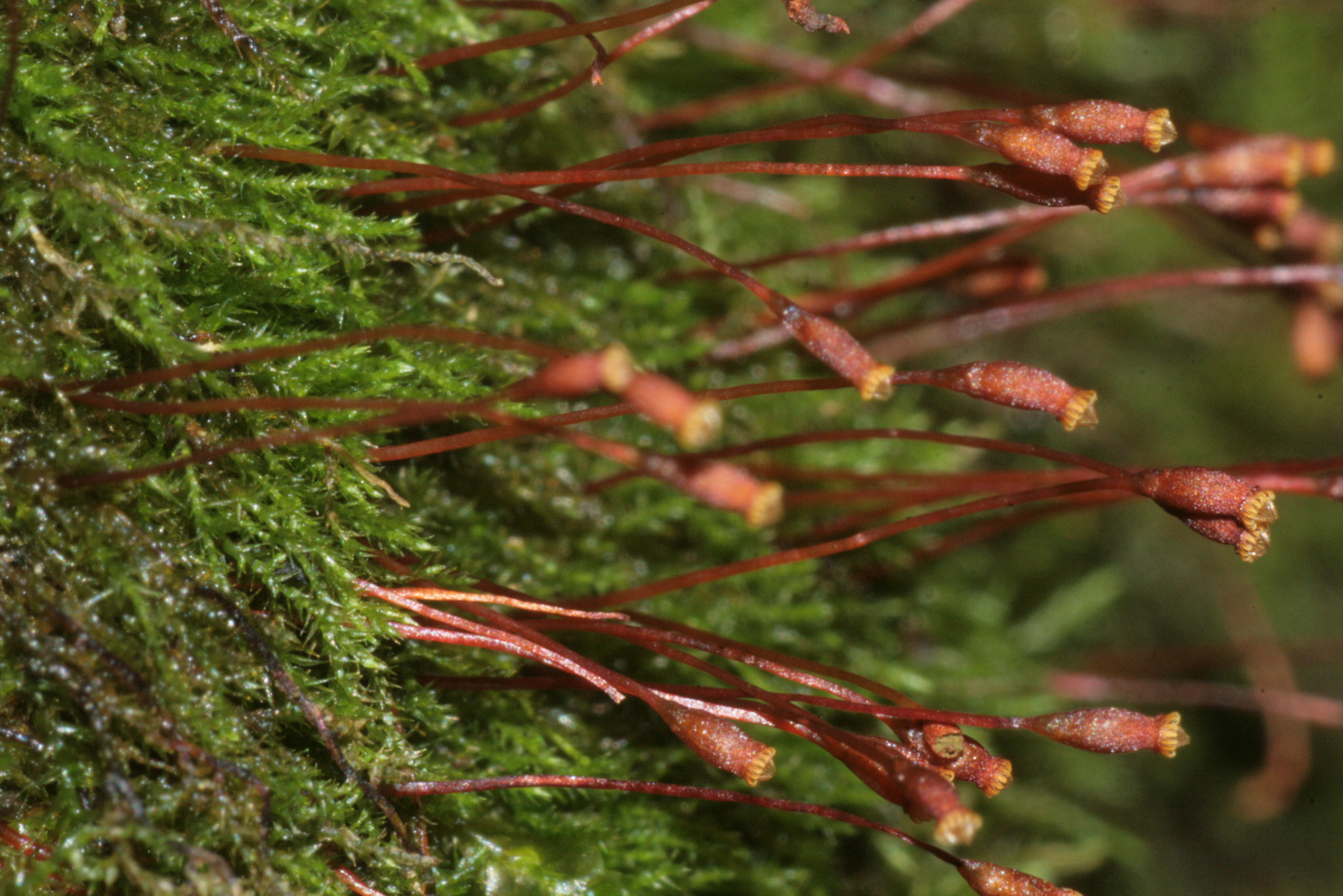 Amblystegium subtile